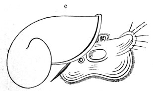 Entoconcha mirabilis, adult parasitic gastropod in the holothurian Oestergrenia digitata